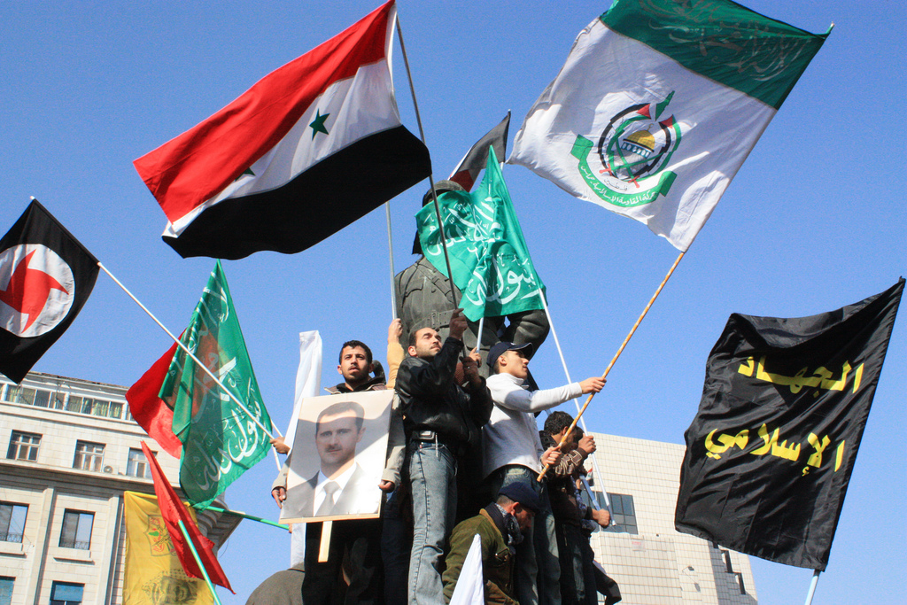 Rally Damascus, Syria December 2008